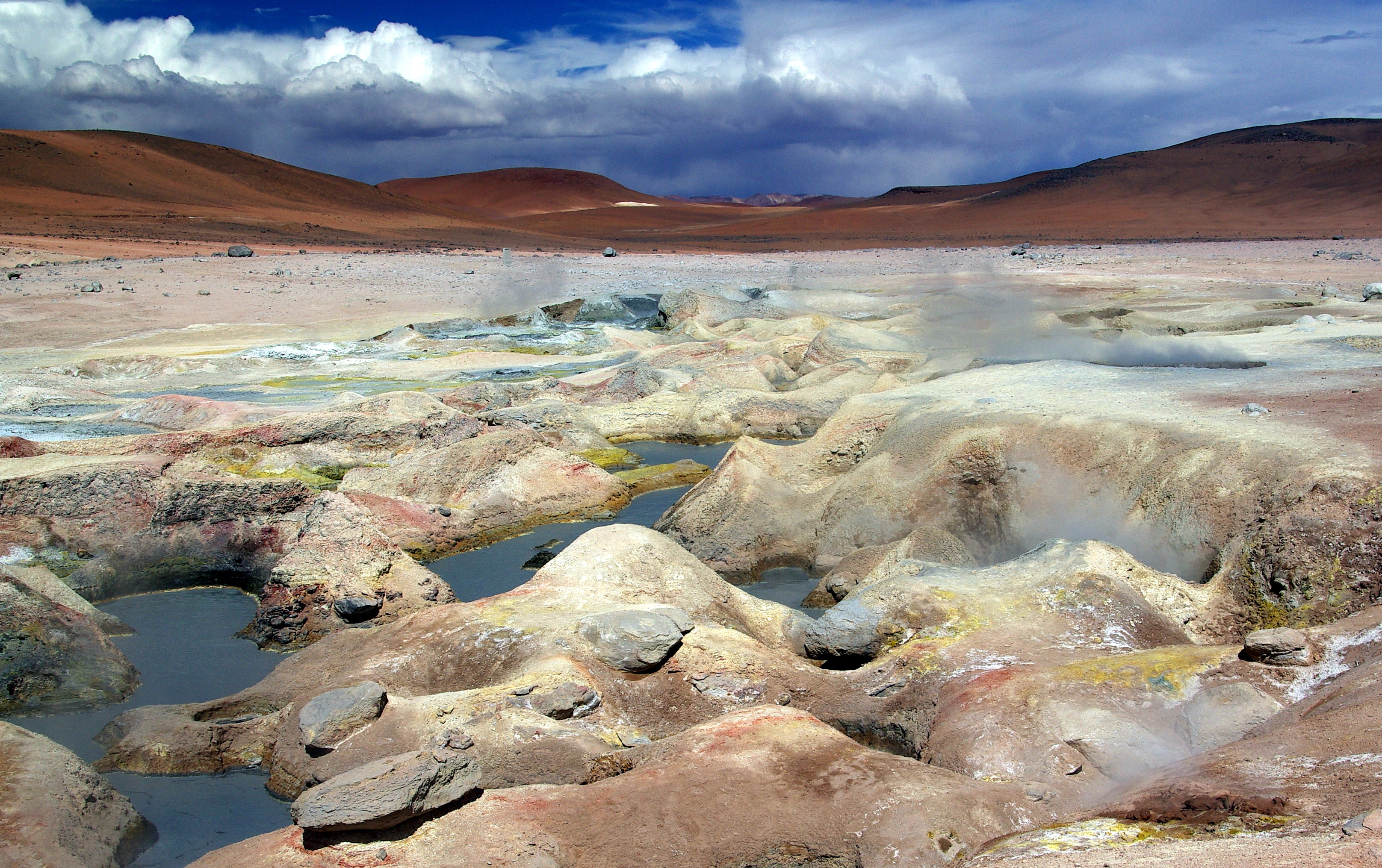 Sol de Mañana geyser field, Sur Lipez province, Bolivia.